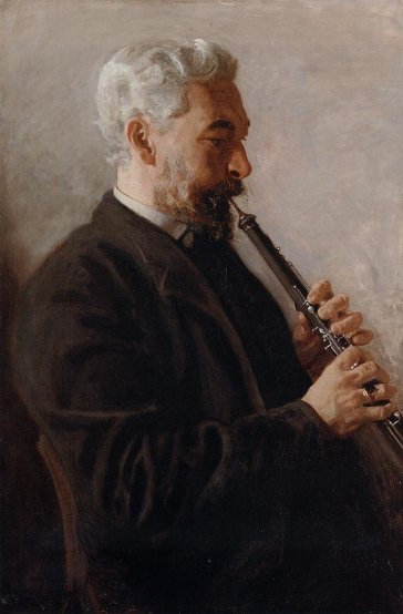 Thomas Eakins - The Oboe Player (Benjamin Sharp) - Philadelphia Museum of Art